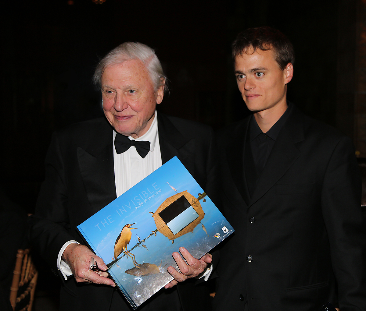 Sir David Attenborough and Bence Mate met at the 50th BBC Wildlife Photographer of the Year competition in the Natural History Museum/London